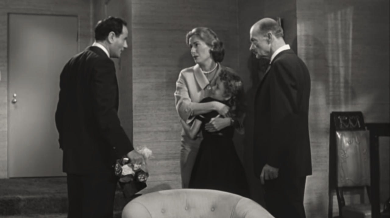 Left to right: Eli Wallach, Mary LaRoche, Cheryl Callaway, and Robert Keith in The Lineup (1958) - trailer (cropped screenshot)